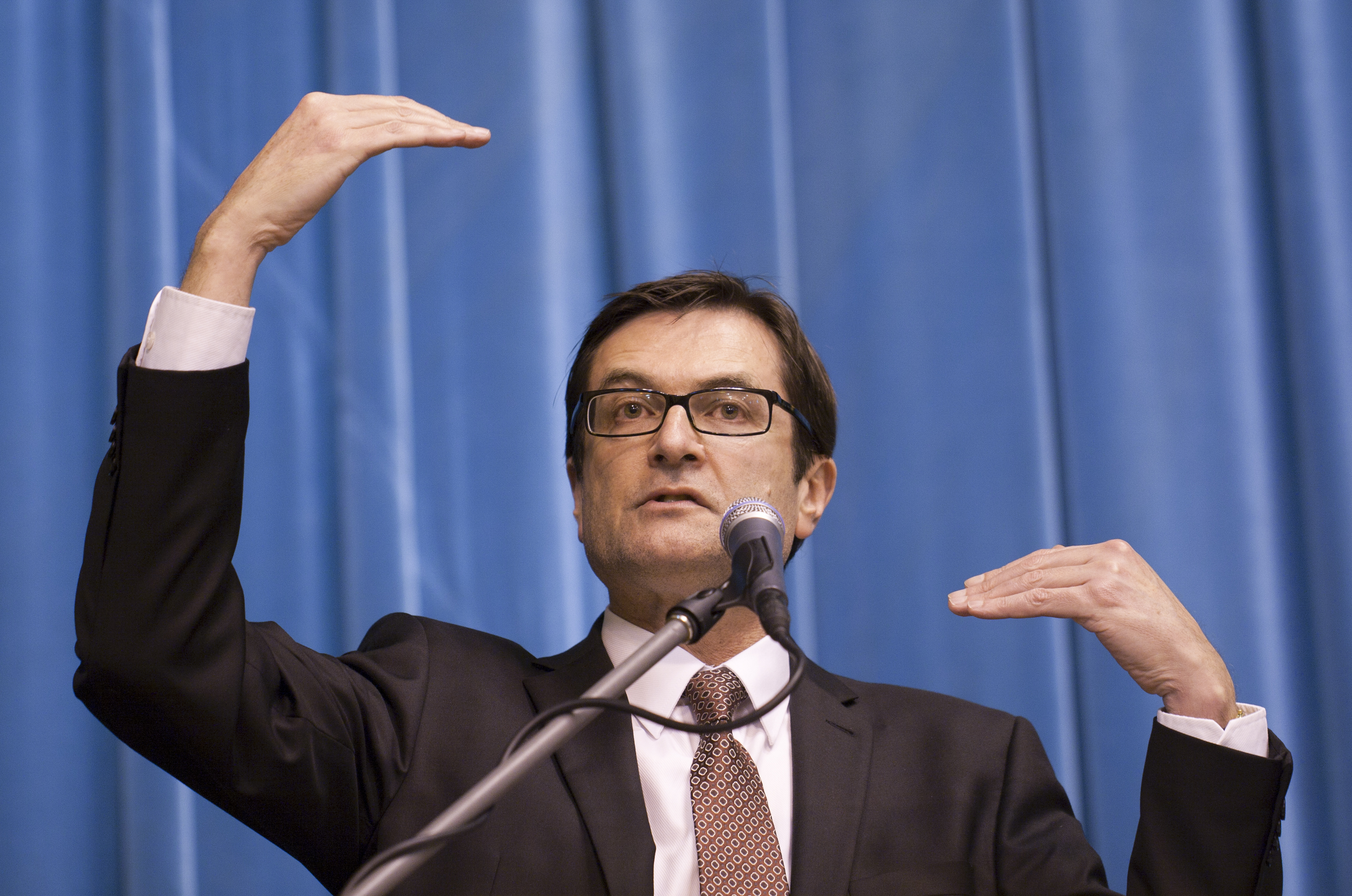 Greg Combet, Member of Parliament of Australia, explaining the effects of the proposed carbon dioxide pollution tax, at the {Petersham Town Hall.